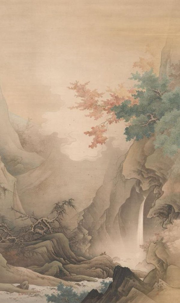 "White Clouds and Autumn Leaves." The first prize of virtuosity at the third "domestic industrial exposition".